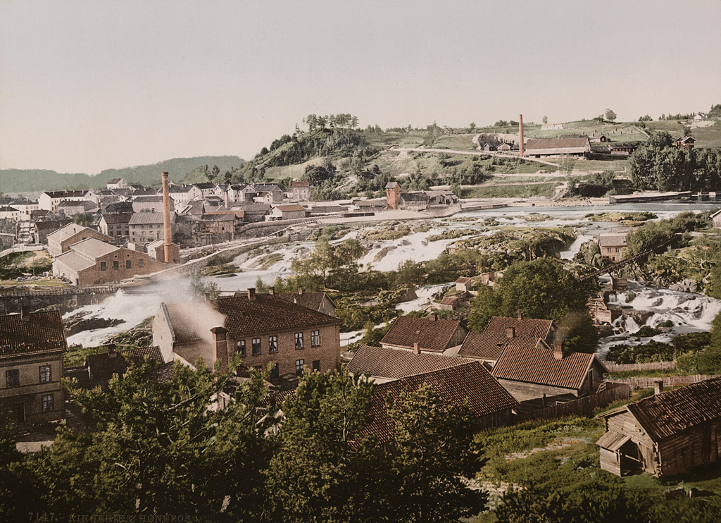 Hønefossen cirka 1890-1900 (The Fall of Hønefoss, 1890-1900)